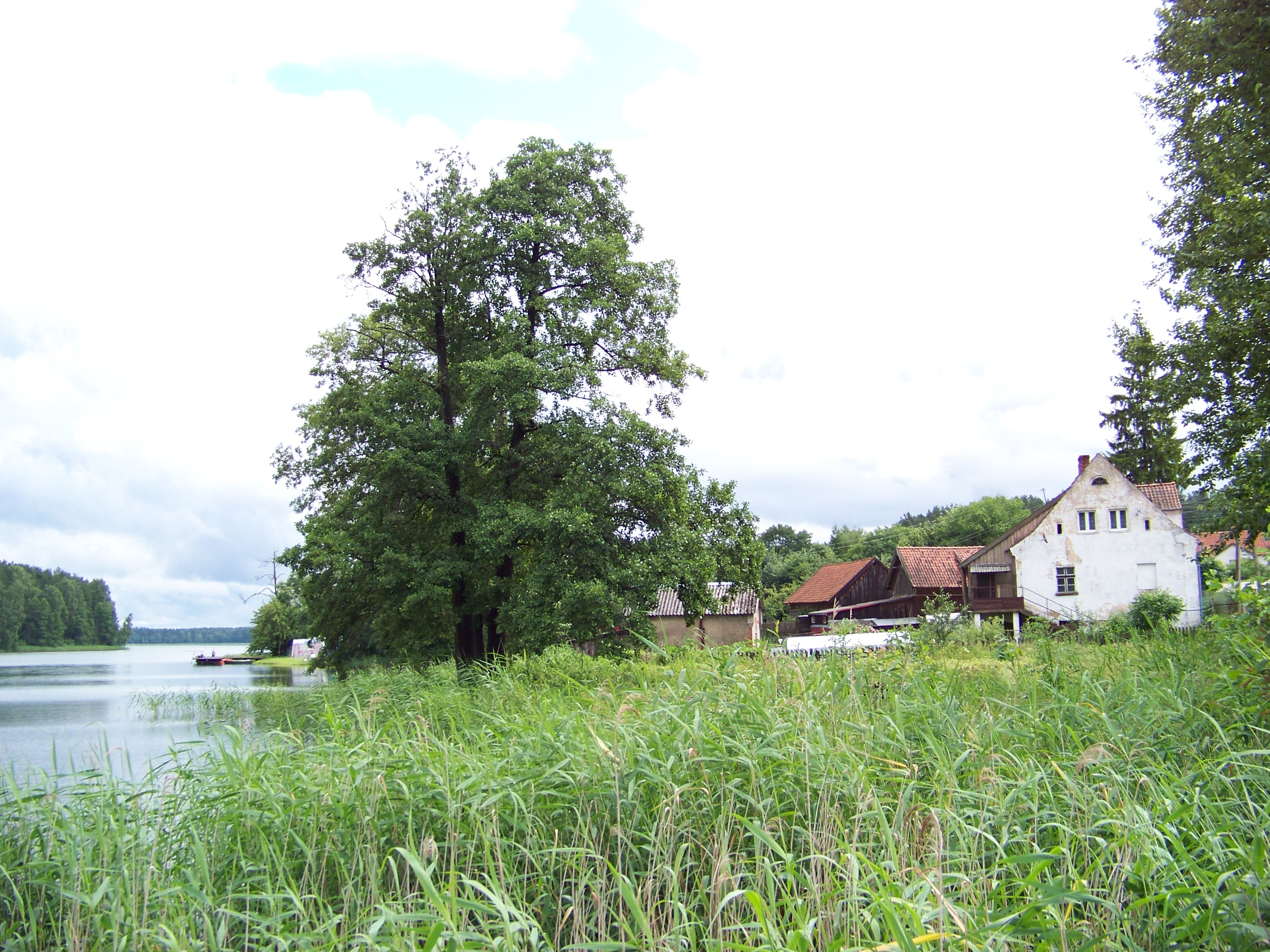 Wiartel